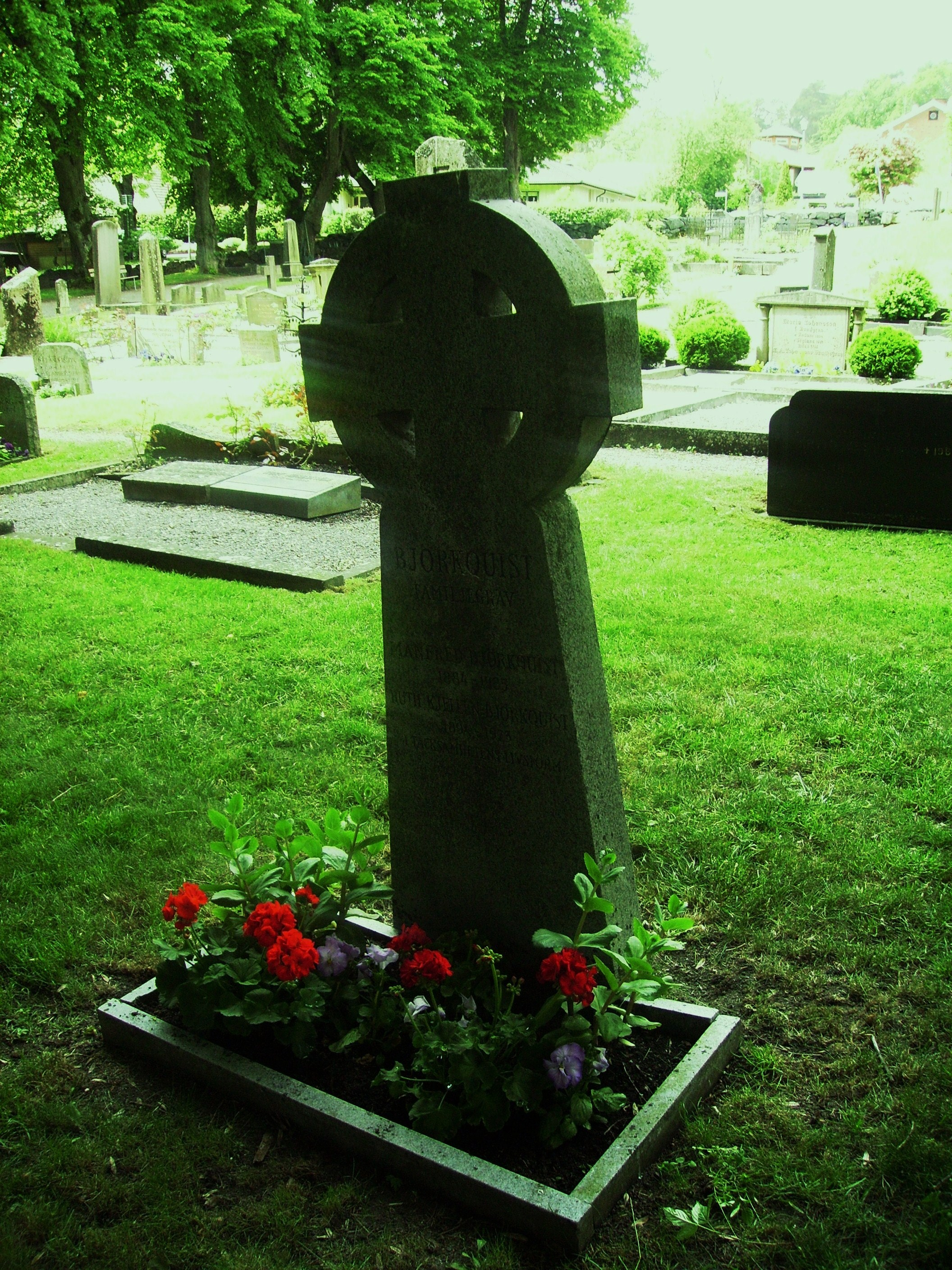 Picture of Manfred Björkquists grave in Sigtuna